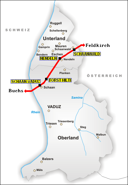 A map of Liechtenstein showing the railway line (in red) and the 4 railway stations (black dots) with their name